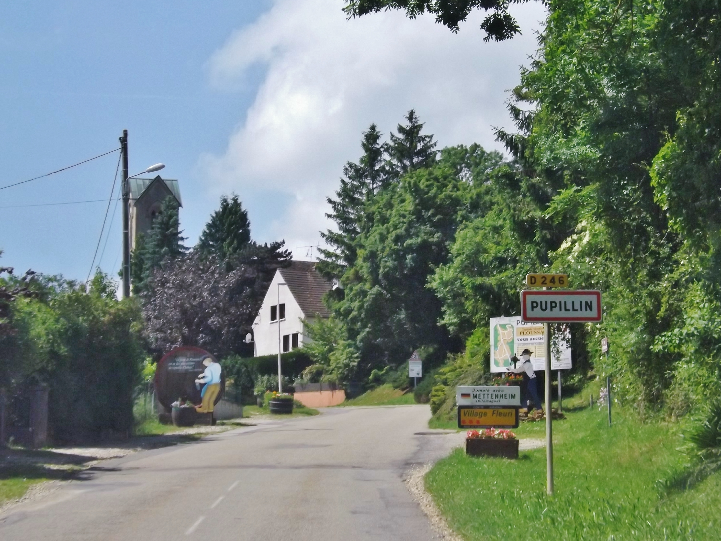 Road sign of Pupillin commune, near Arbois in Jura, France.